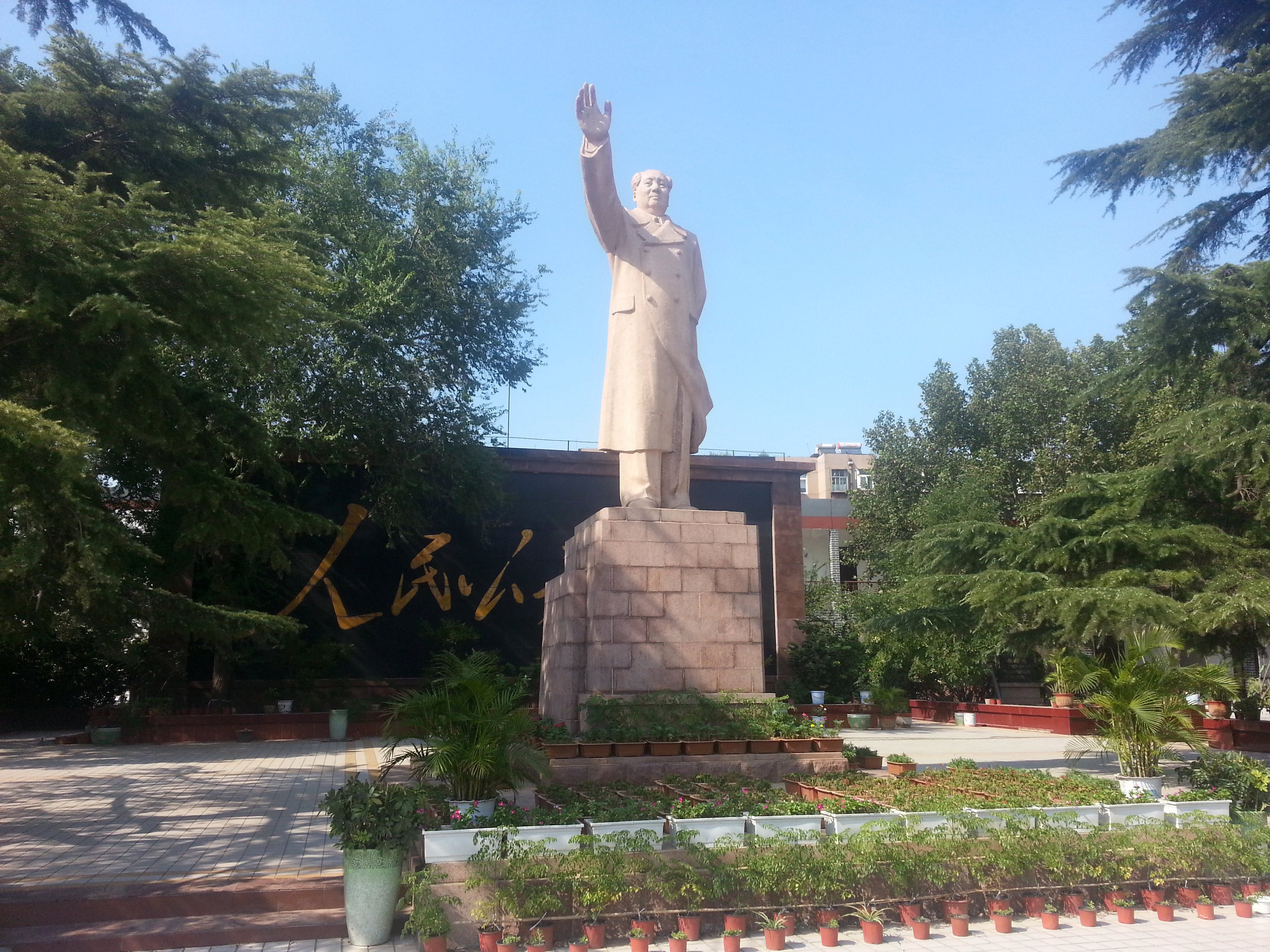 Photograph of the Mao sculpture in the center of the memorial for Chairman Mao's inspection of the North Park Commune in Jinan, Shandong, China.